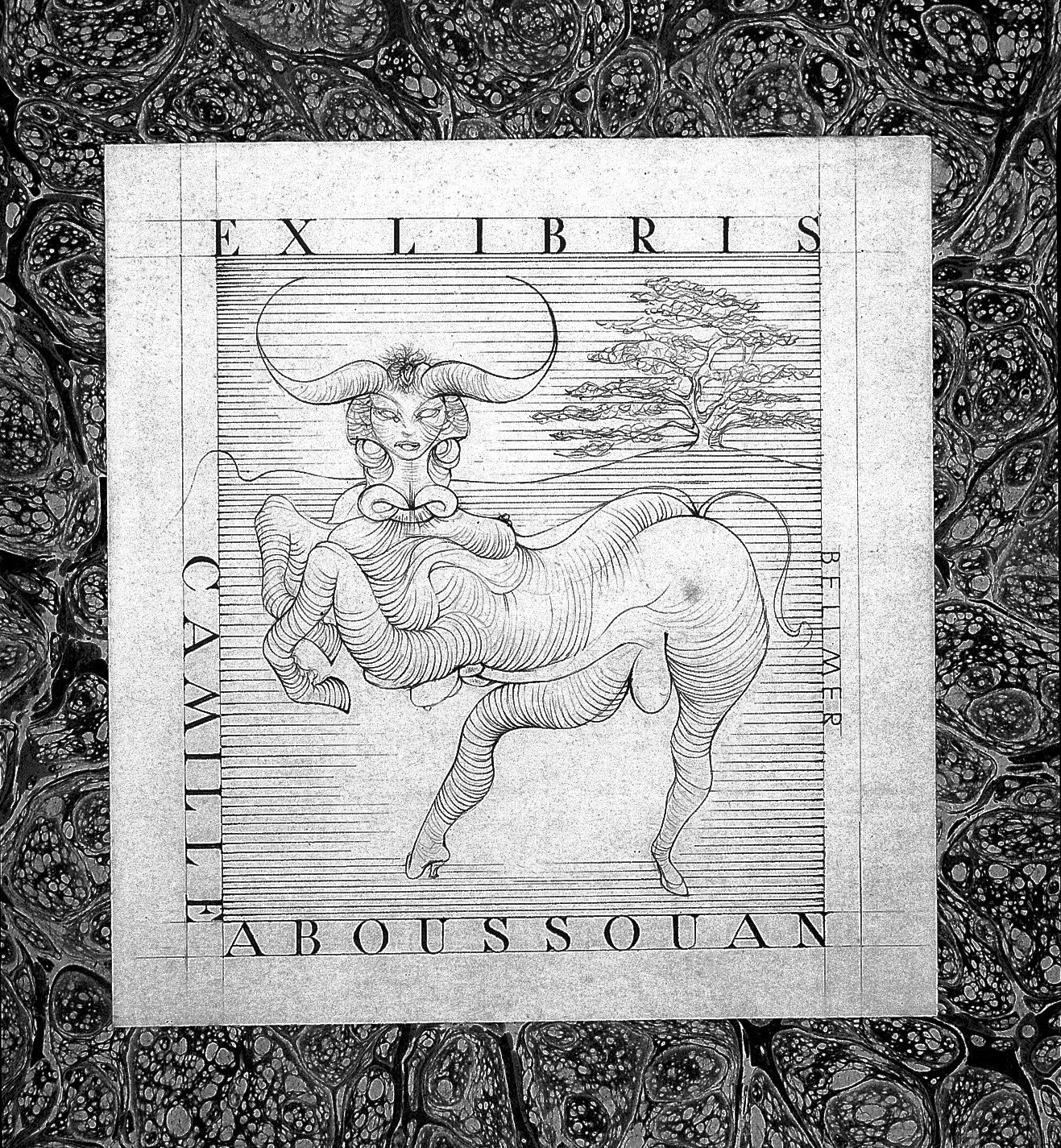 Book-plate, etching with dry point: hermaphrodite minotaur. Rare Books Keywords: Hans Bellmer